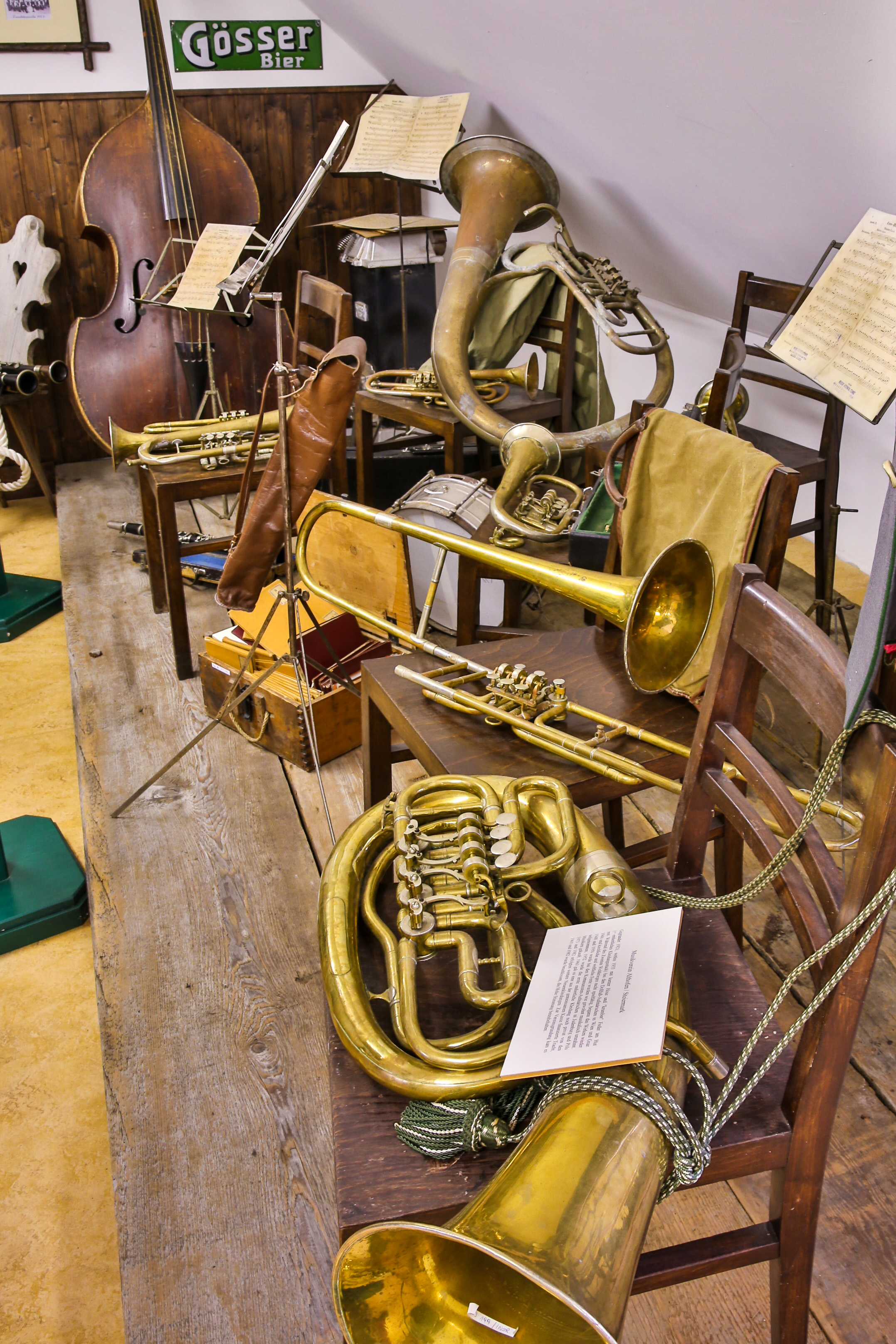 Austrian Brass Music Museum in Oberwölz / Styria / Austria / EU.